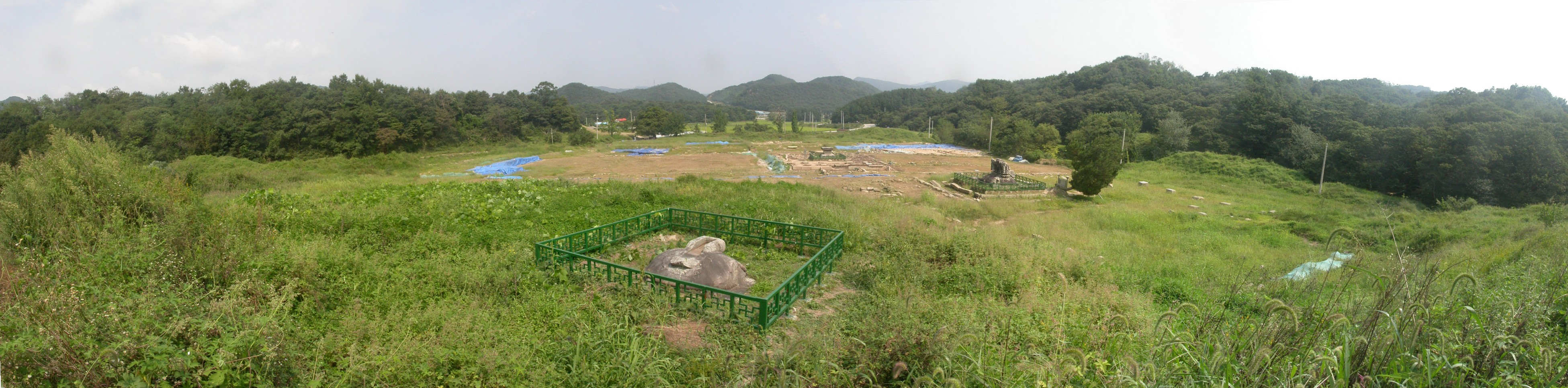 Godalsa(temple) site in Yeoju Historic site No.382